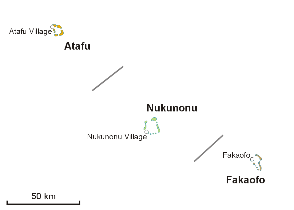 Administrative map of Tokelau